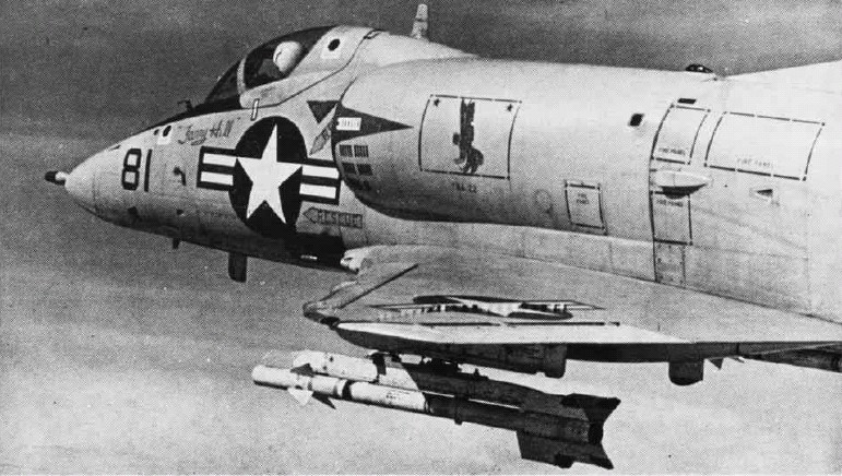 A Douglas A-4B Skyhawk from detachment R of attack squadron VA-22 Fighting Redcocks armed with an AIM-9B Sidewinder air-to-air missile, in 1963. The VA-22 Det. R was assigned to Anti-Submarine Carrier Air Group 53 (CVSG-53) for a deployment to the Western Pacific from 4 June to 3 December 1963 aboard the U.S. anti-submarine aircraft carrier USS Kearsarge (CVS-33).